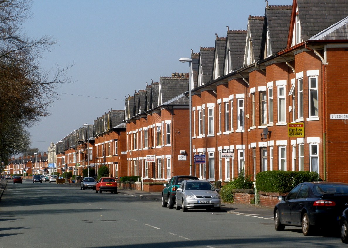 Terrace Houses on Platt Lane in Rusholme